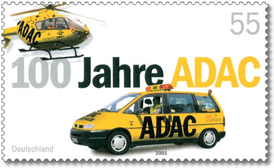 Stamp from Deutsche Post AG from 2003, 100th anniversary of ADAC